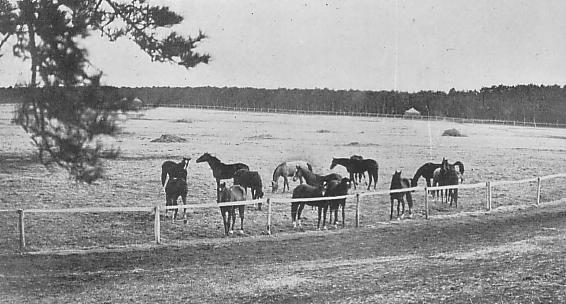 Shimofusa Imperial Stock Farm